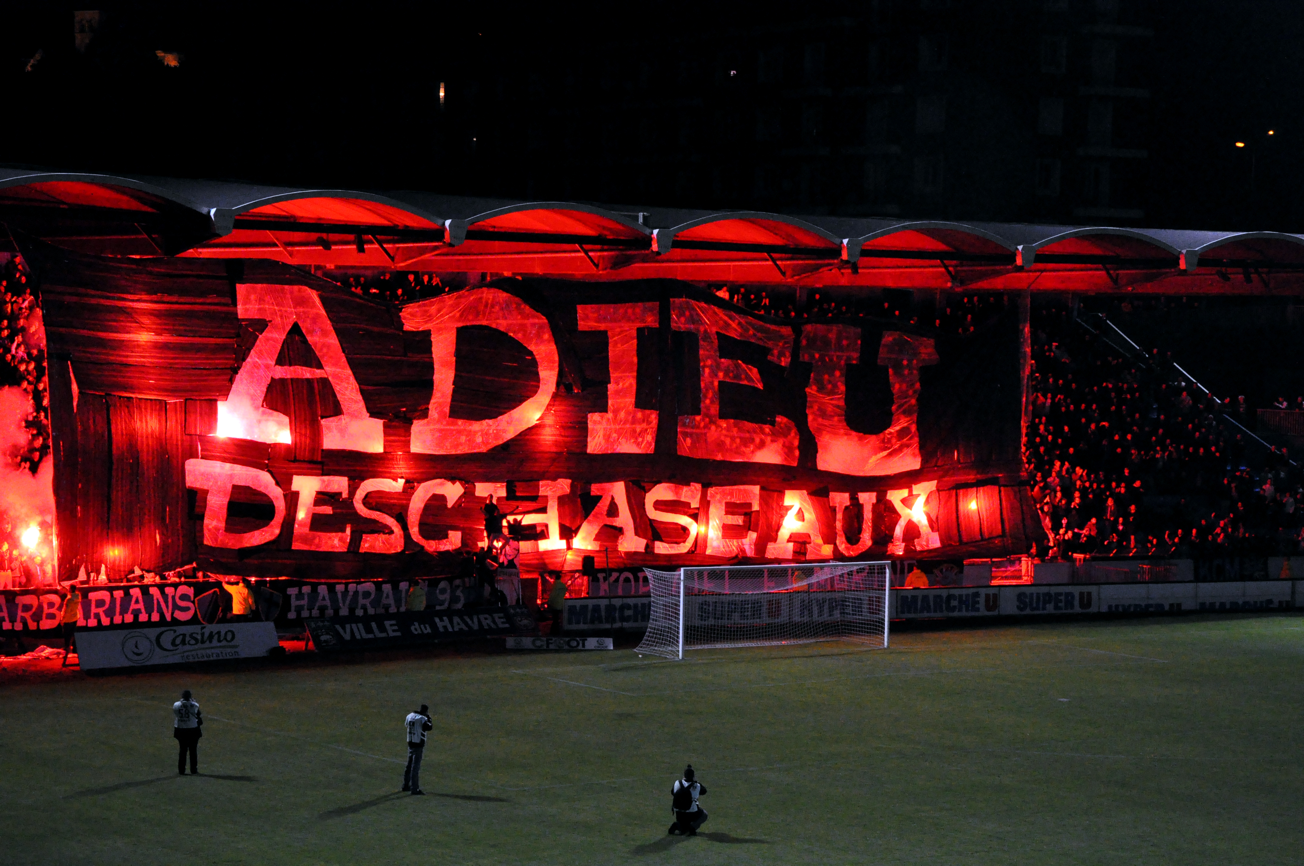 Last match of HAC ( France, Normandy) in stade Jules Deschaseaux ("Bye bye Deschaseaux")